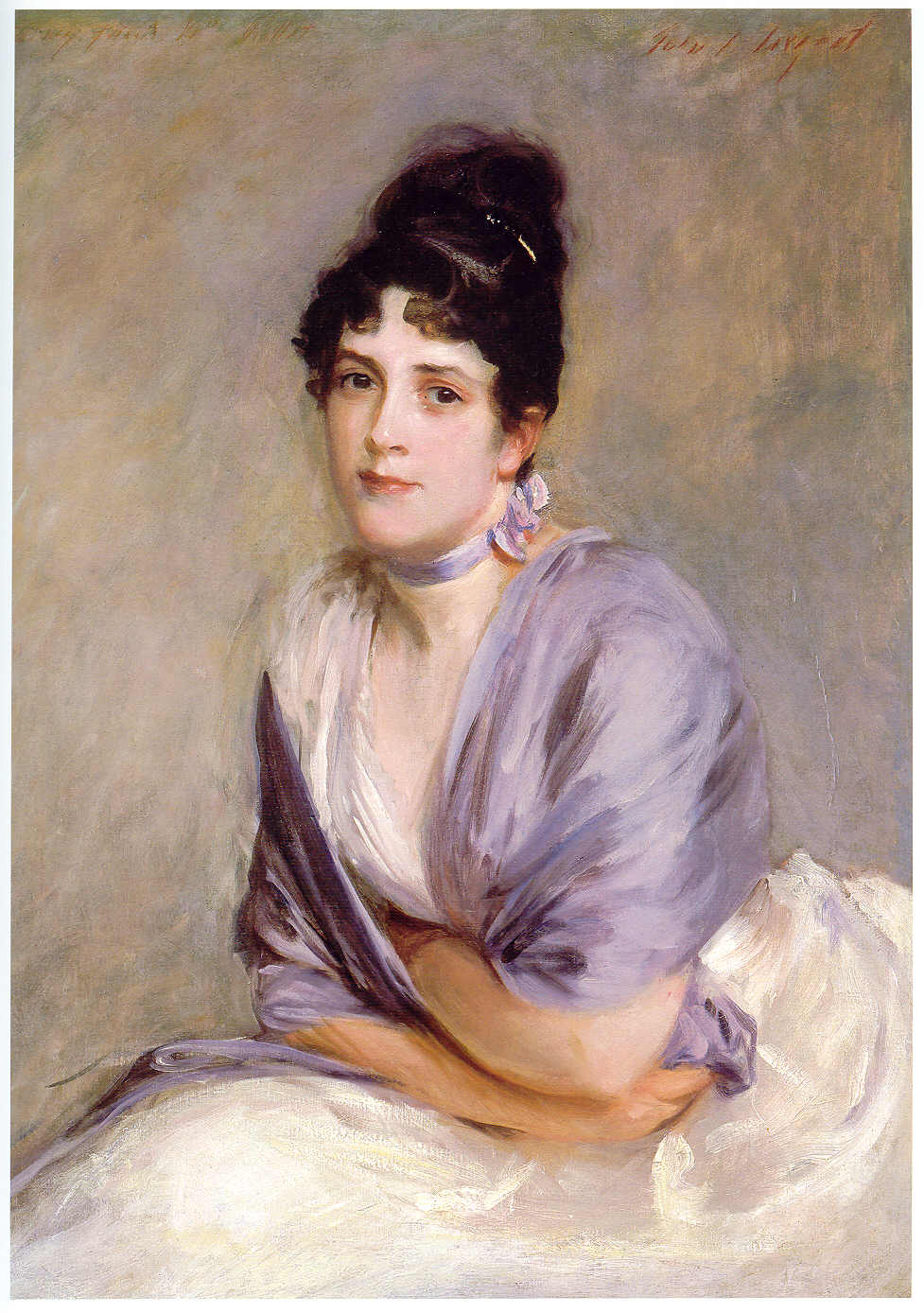 Mrs Frank Millet ("Lily", nee Elizabeth Merrill) John Singer Sargent -- American painter 1885-1886 Private collection Oil on canvas 87.3 x 67.3 cm (34 3/8 x 26 1/2 in). Jpg: local